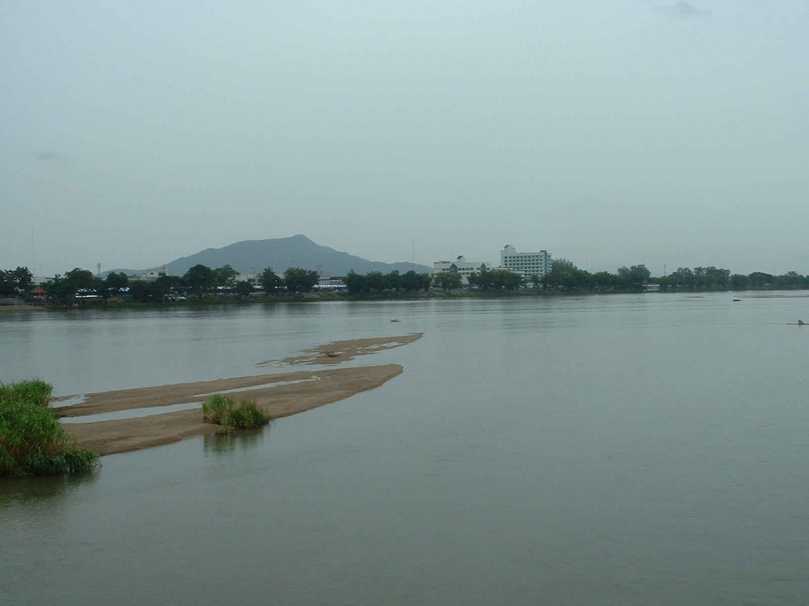 Picture taken by myself of the Ping River at A. Muang, Tak, Thailand